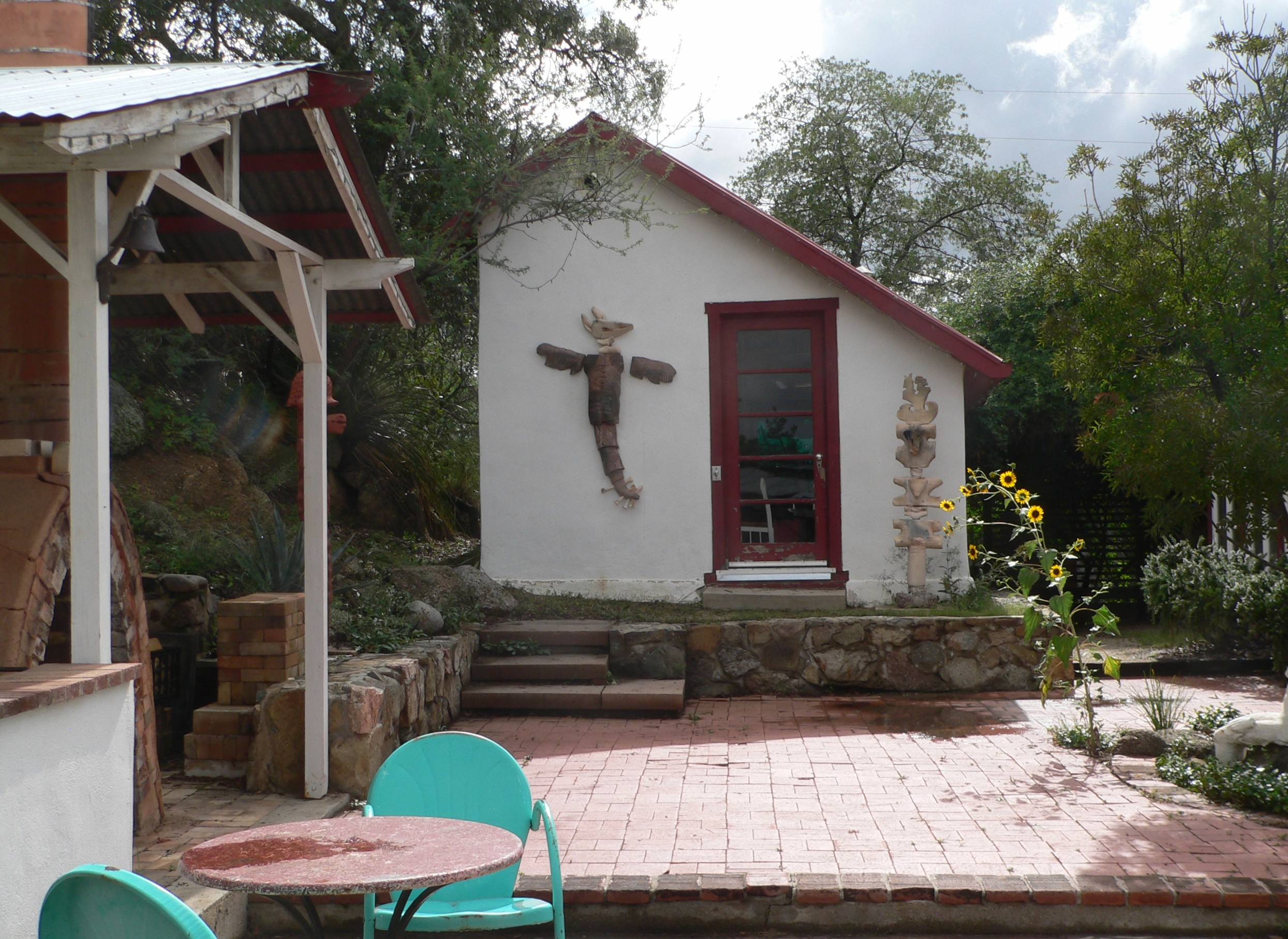 Buildings at Rancho Linda Vista in Oracle, Arizona.